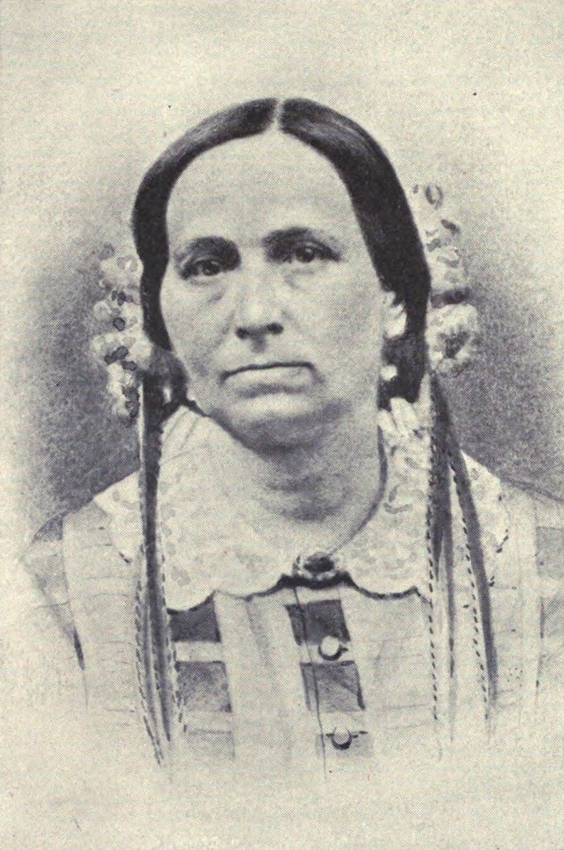 Mrs. Mary Kittredge Clark (1803-1857), first wife of Rev. Ephraim Weston Clark (1799-1878); they came to Hawaii in 1828 with the Third Company of missionaries.